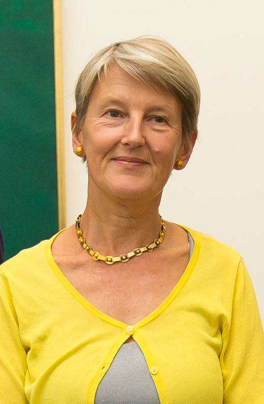 Penelope Curtis Museum director 2019